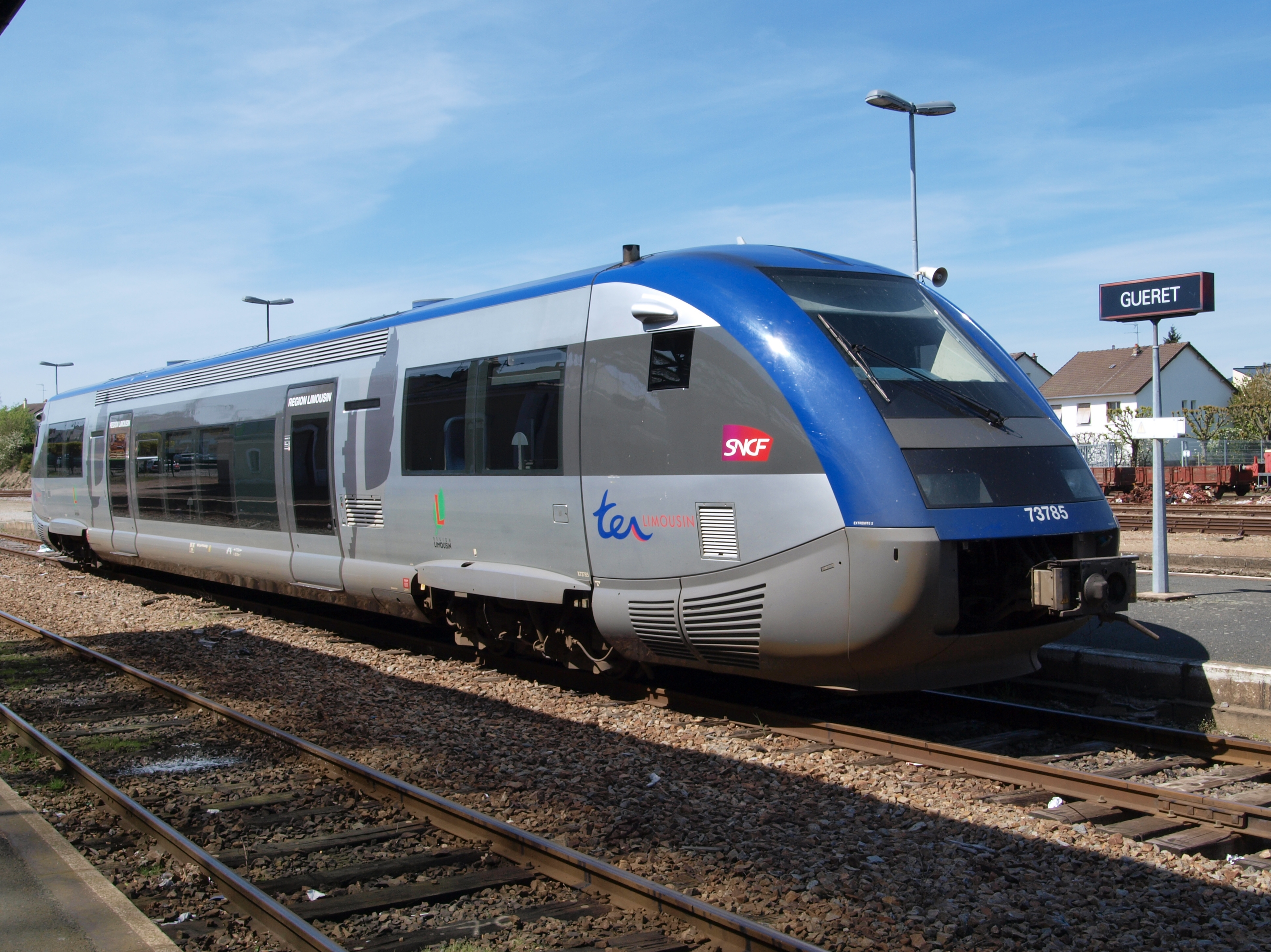 SNCF 73785 Ter Limousin at Gueret, France.